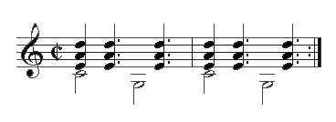 Trimmed PNG version of User:Hyacinth's Image:Basic bossa-nova guitar rhythm.bmp The music itself is out of copyright. The bass part doesn't follow real bossa nova rhythms (dotted quarter note — eight note), but is replaced by half-note for simplified play, but loose a part of bossa nova typical rhythm, coming from samba. The image is ineligible. Image:Basic bossa nova guitar rhythm.PNG he:תמונה:Basic bossa nova guitar rhythm.png